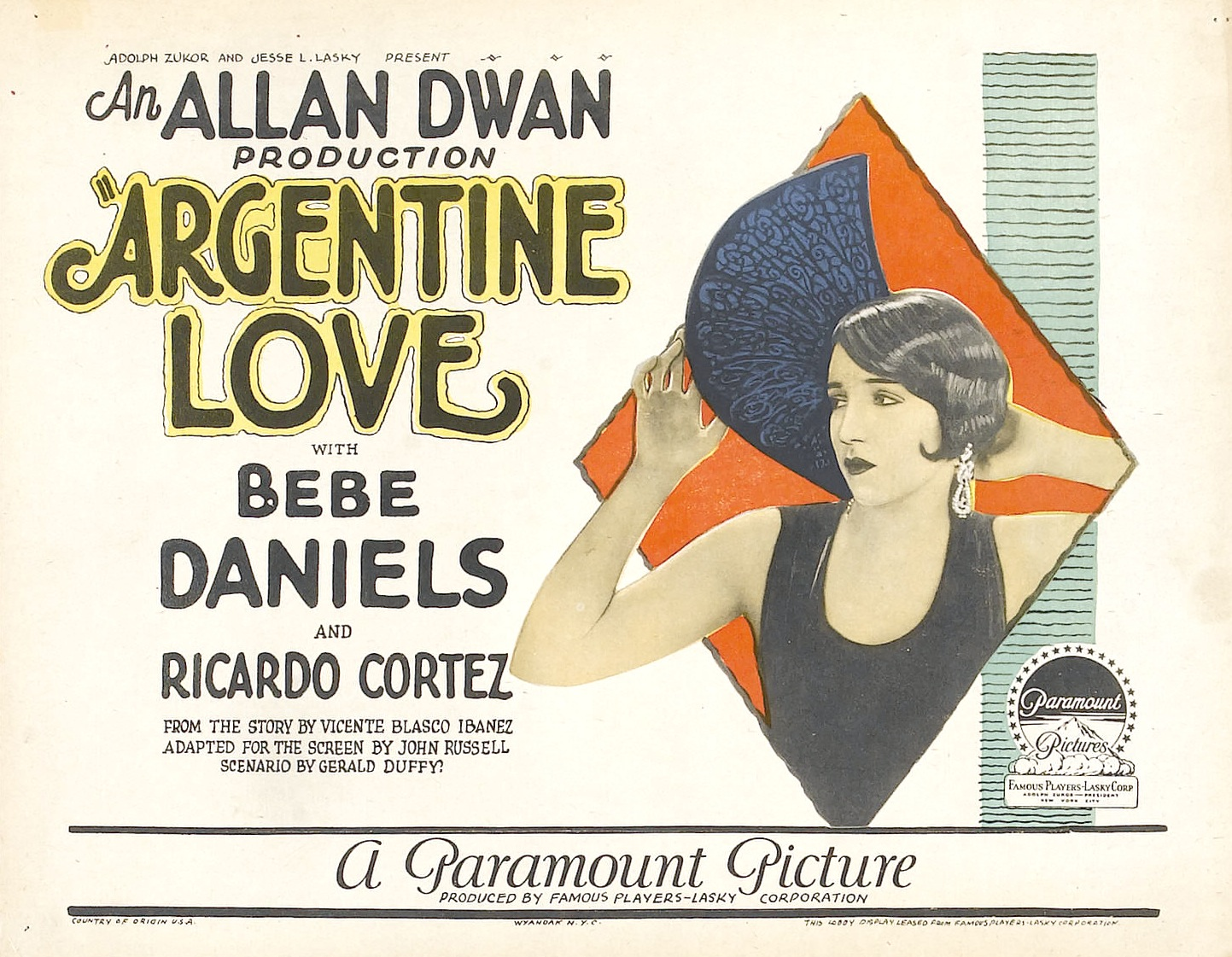 Argentine Love is a lost 1924 Bebe Daniels silent film romance drama directed by Allan Dwan and based on a story by Vicente Blasco Ibanez. This is a contemporary lobby card for the film.